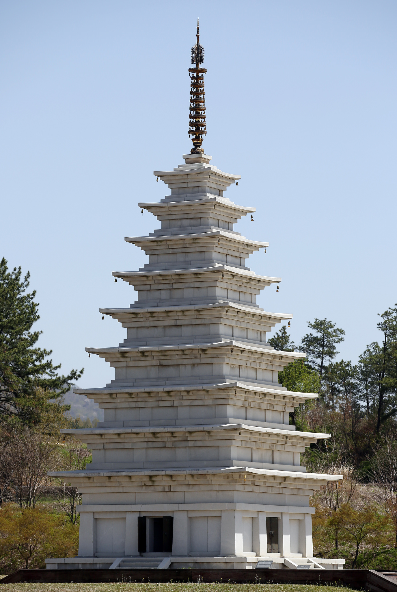 Mireuksa, Jeollabuk-do